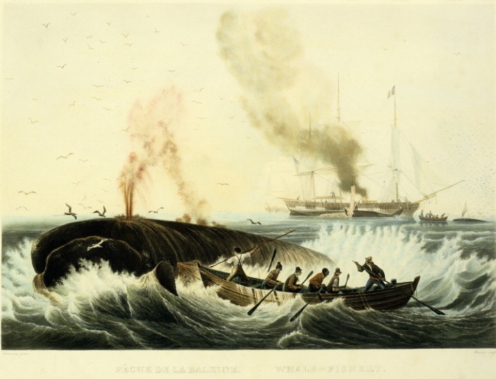 Peche De La Baleine (Whale Fishery) Colored aquatint 22 1/4” x 32” (56.5 cm x 81.1 cm)